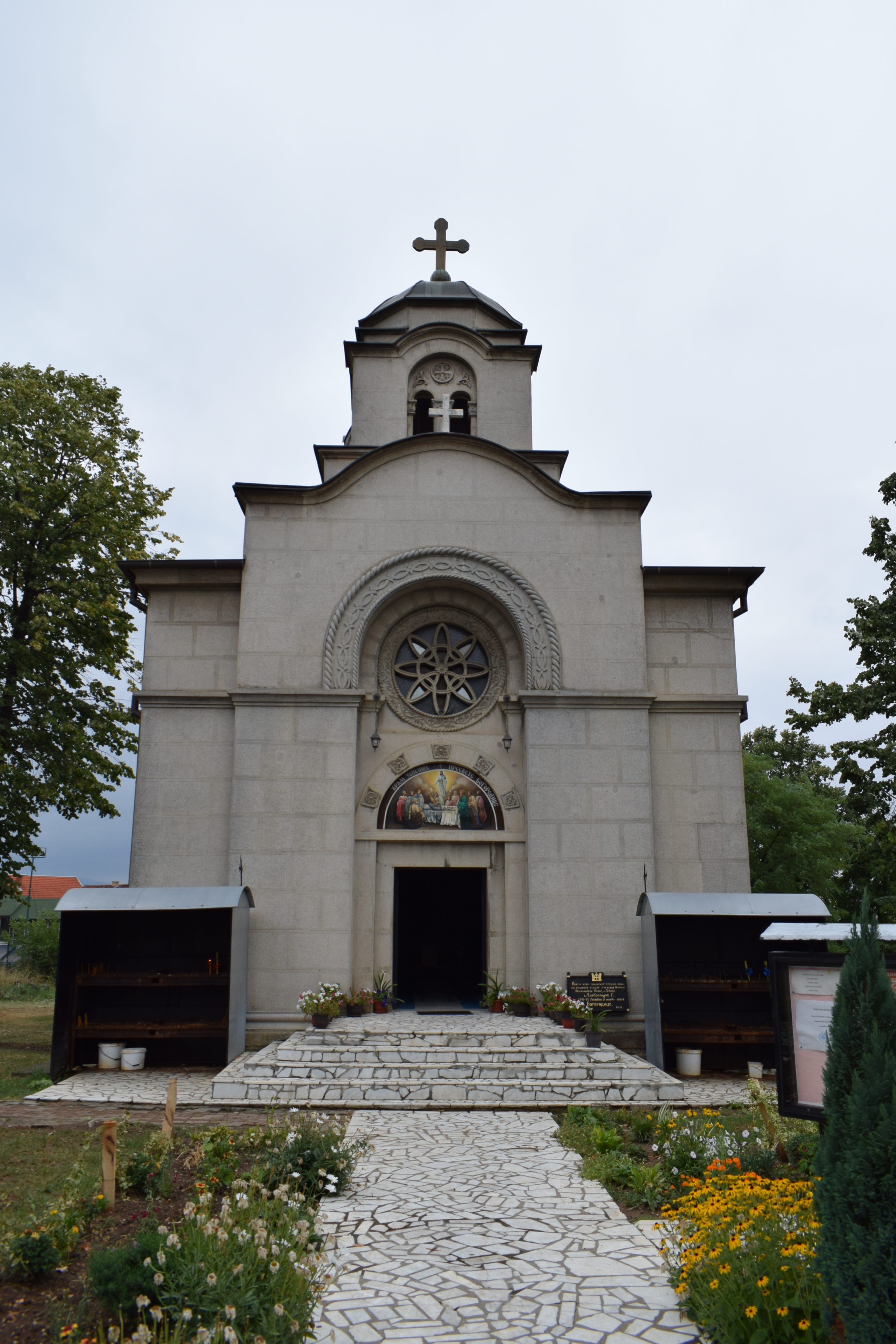 Crkva Uspenja presvete Bogorodice, Blace 03